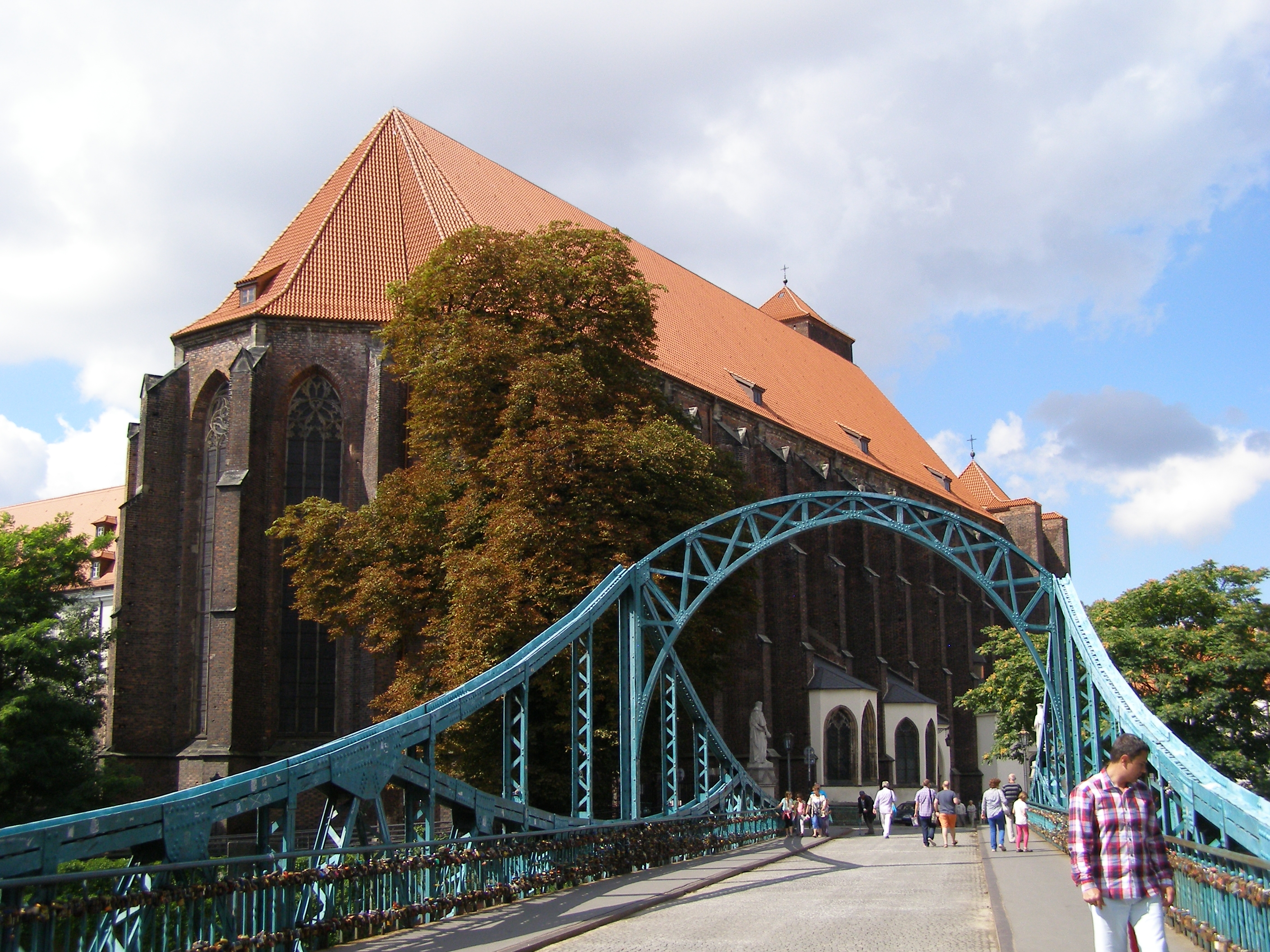 Wrocław - Tumski Bridge and the Virgin Mary church on Piasek